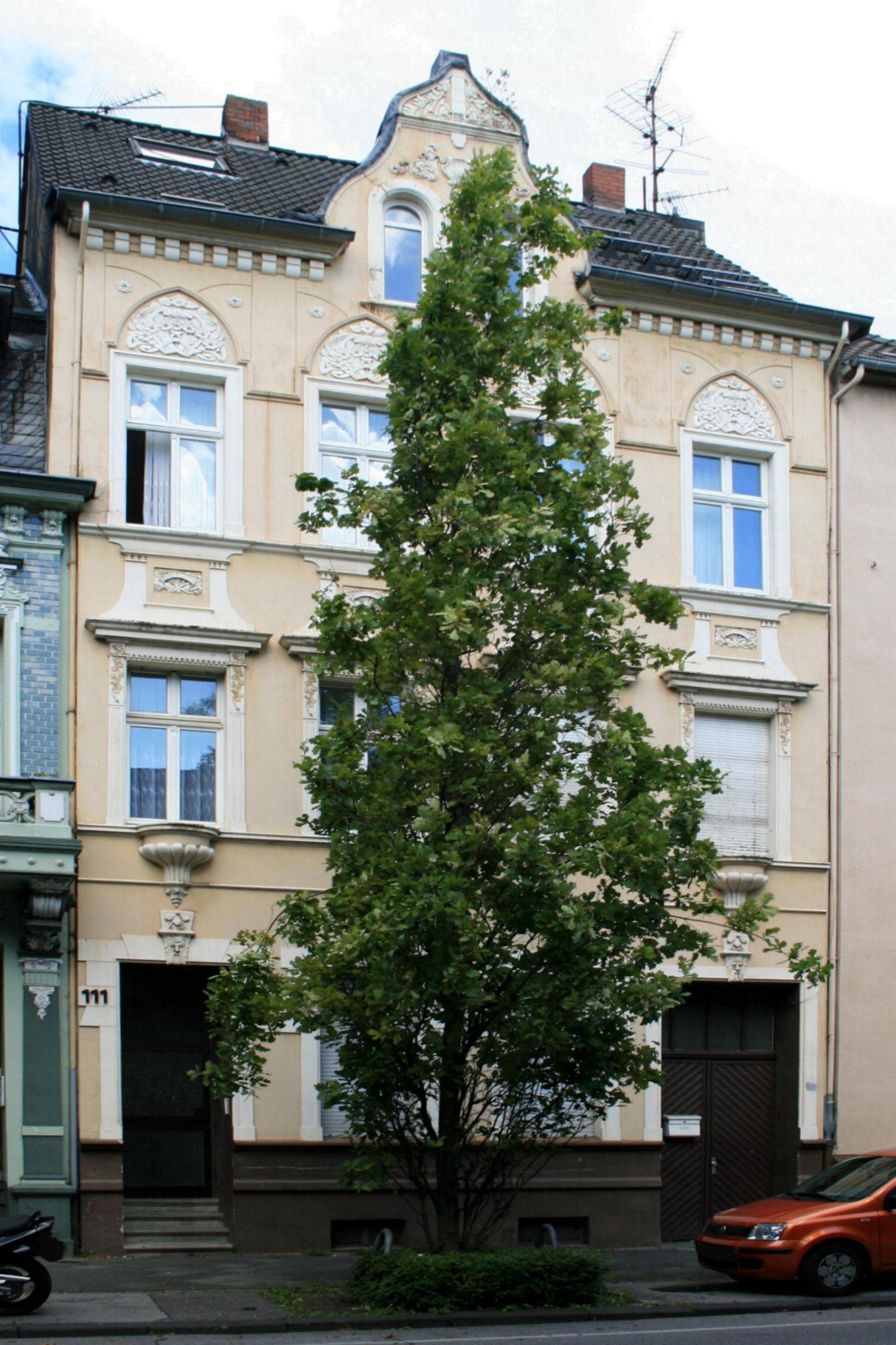 Cultural heritage monument No. K 012 in Mönchengladbach